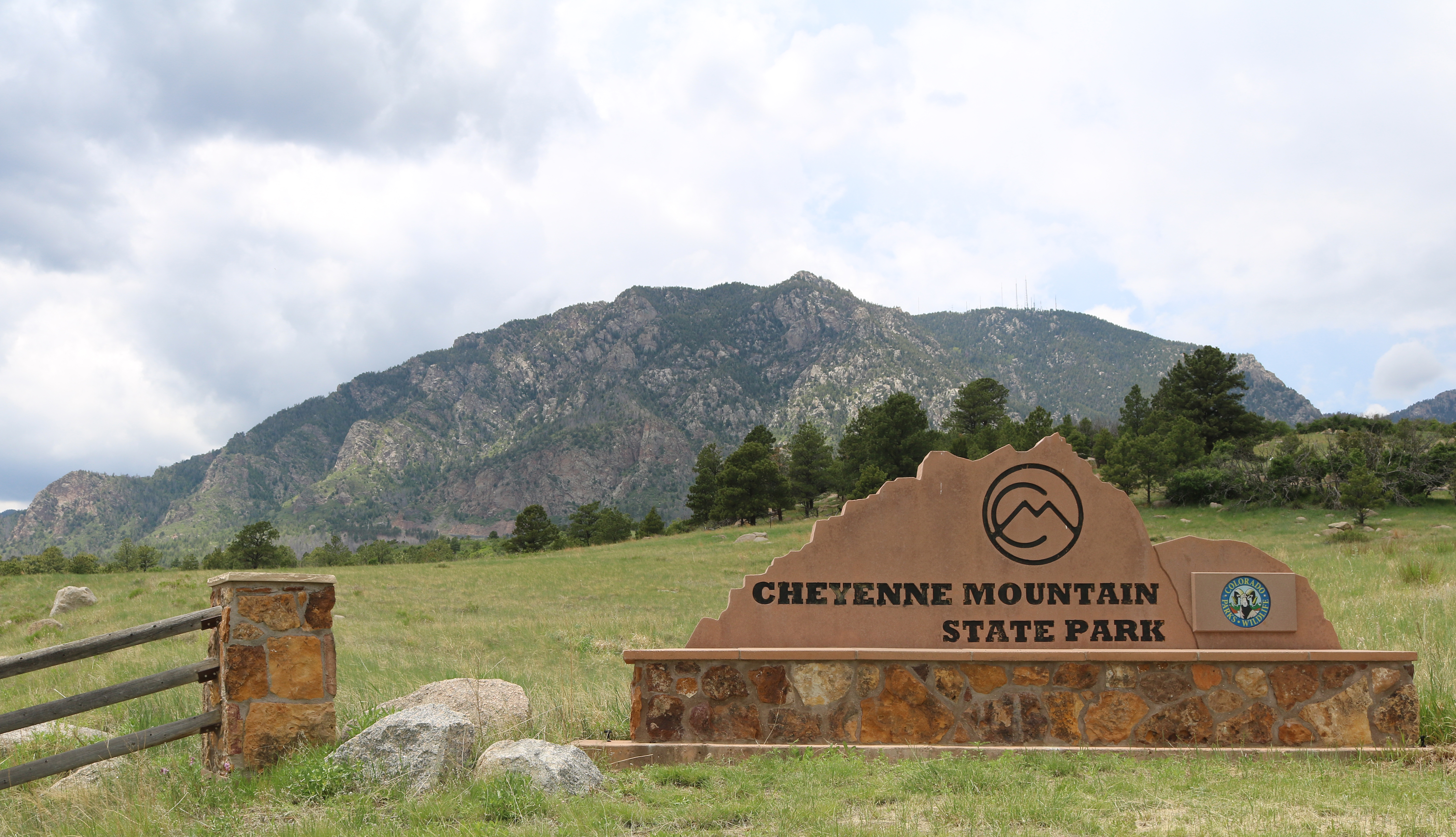 Cheyenne Mountain State Park in El Paso County, Colorado. The photo shows the sign at the park's entrance on JL Ranch Heights Road (also called State Park Road) in Colorado Springs, Colorado.